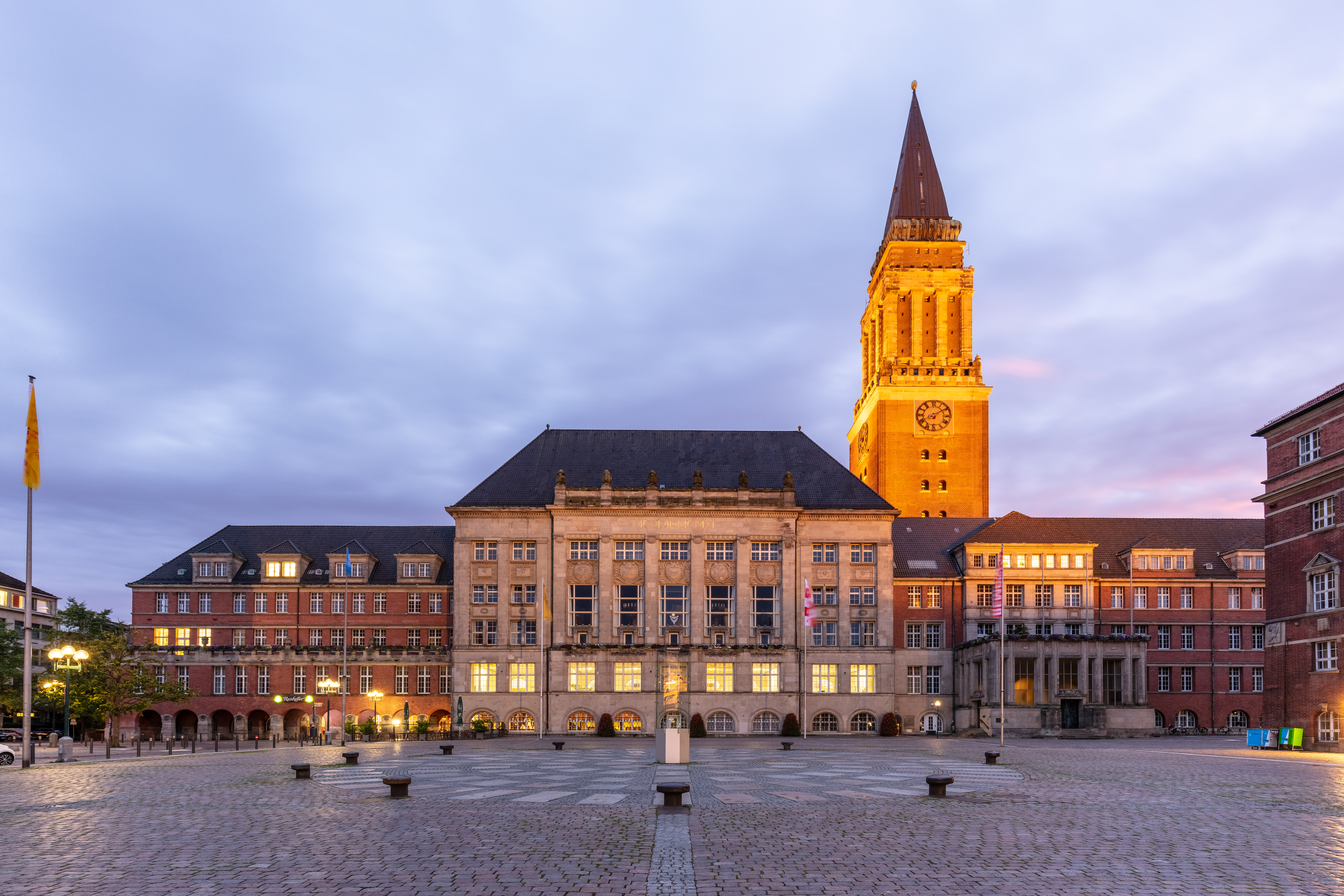 Town hall of Kiel, capital of Schleswig-Holstein, Germany. Its tower, which is 106 metres (348 ft) high, is one of the city landmarks.